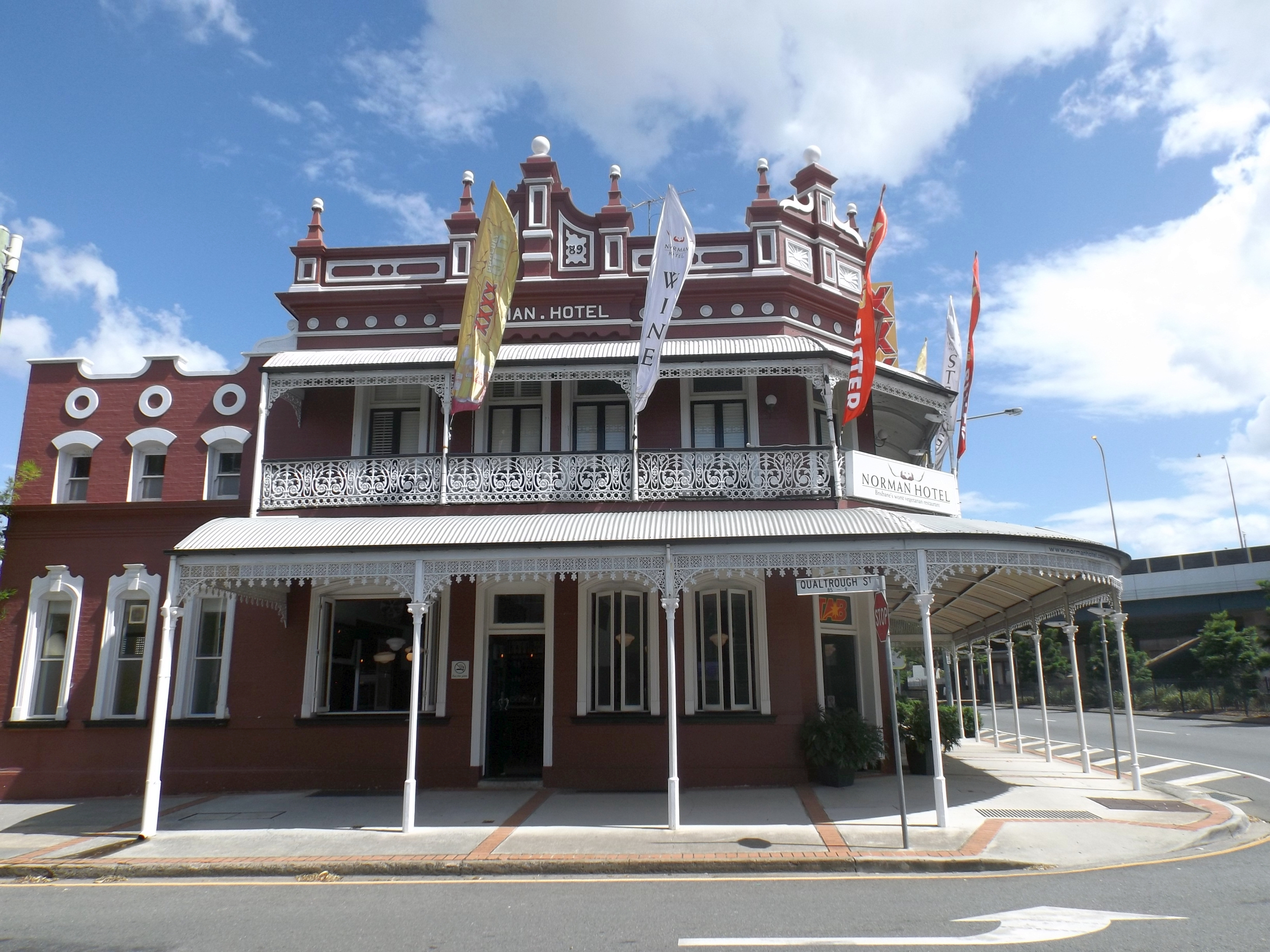 Photo of Norman Hotel and Ipswich Road at Woolloongabba, Brisbane, Queensland, Australia.